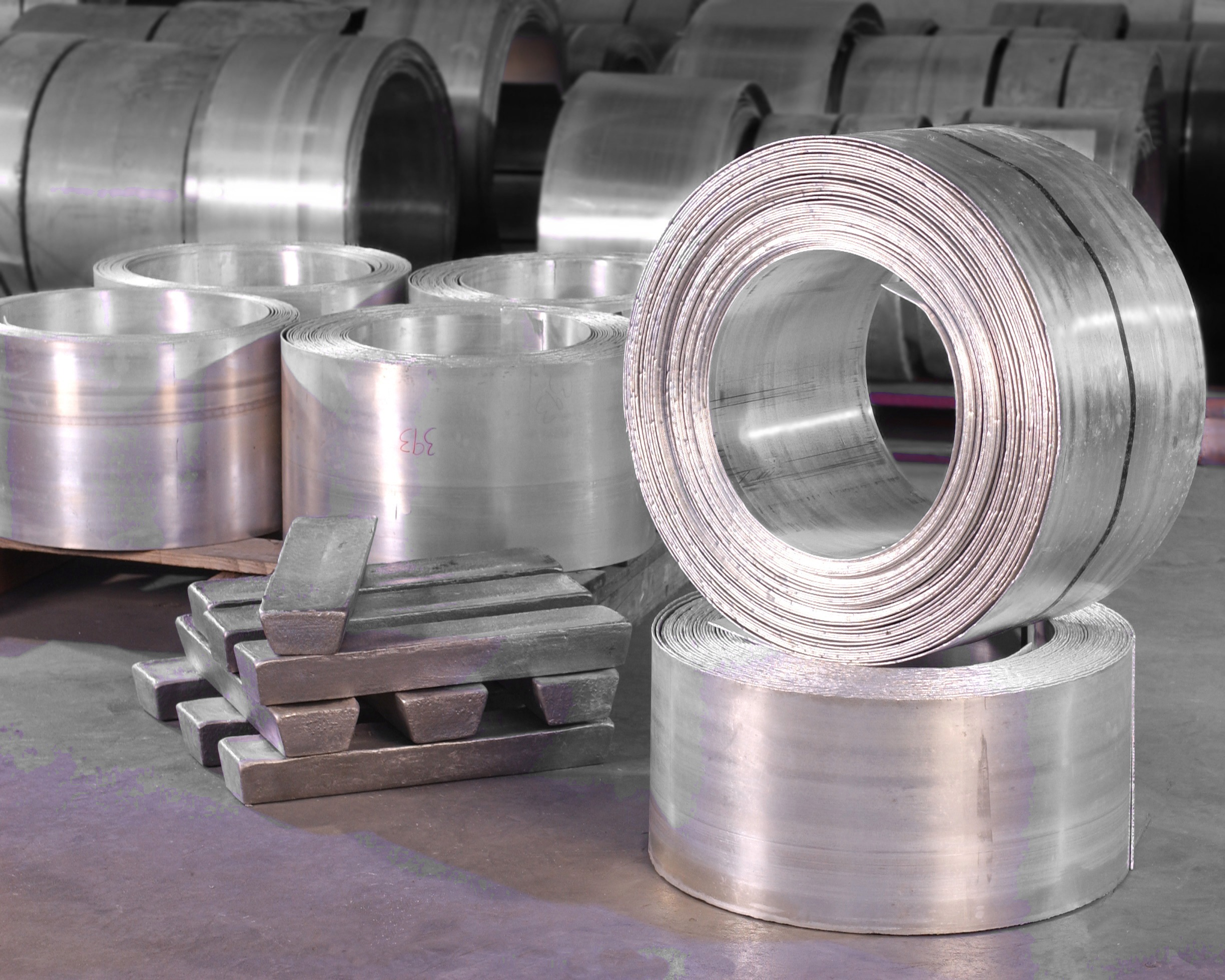 Coiled magnesium sheets and magnesium ingots. The CSIRO division of Manufacturing and Infrastructure Technology has developed one of only a few technologies capable of producing thin magnesium sheet direct from the molten metal. The CSIRO technology is based on the successful application of the twin roll casting technique - used extensively in the aluminium industry - to the production of magnesium alloy sheet. Magnesium alloy strip can be produced directly from the melt with a thickness at - or close to - the final required shape, thereby reducing operational costs. A detailed proving program has demonstrated that the technology is economically efficient and suitable for semi-continuous production of 100-200 kg coils of typically 3 mm thick magnesium sheet.